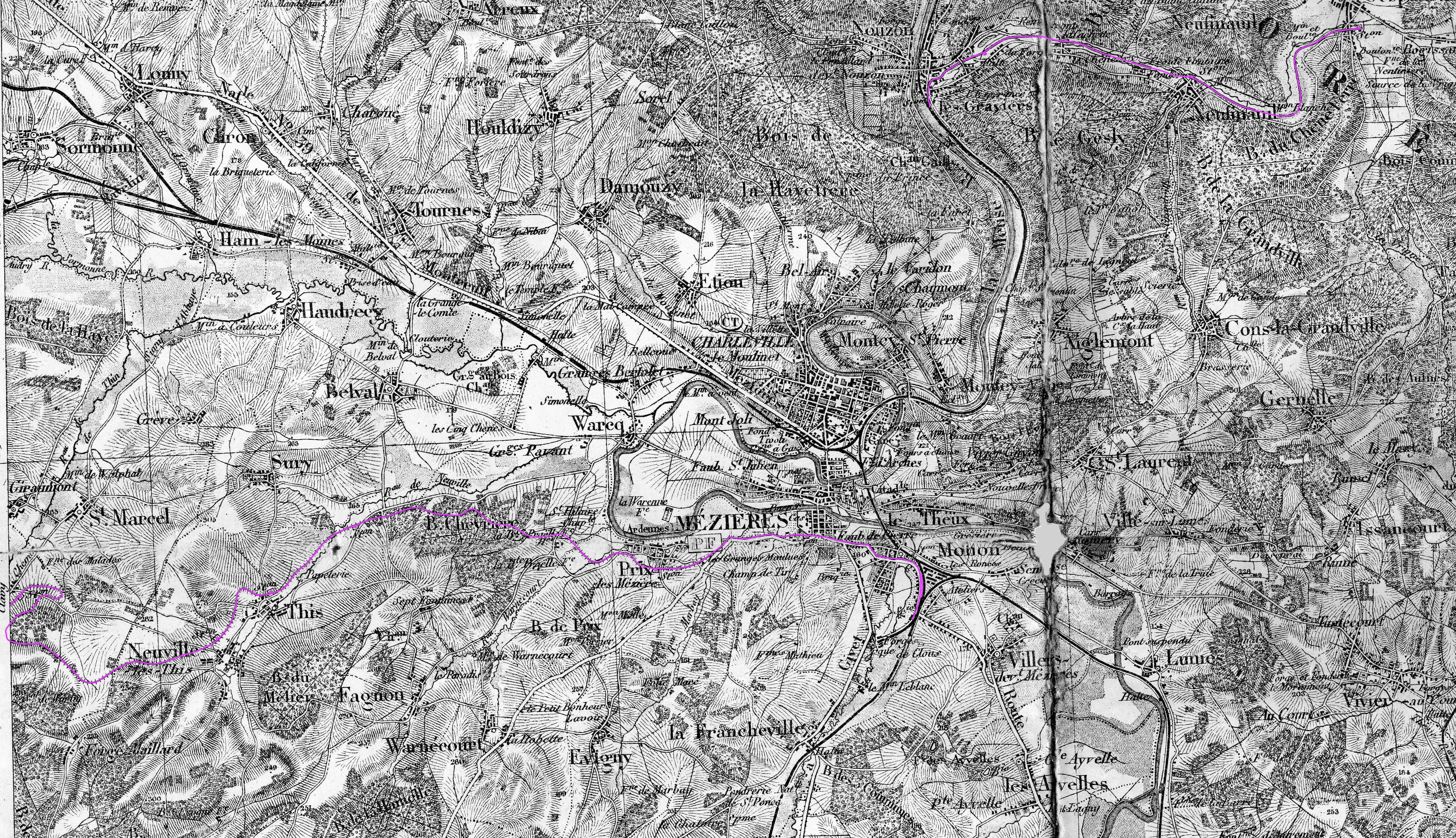 Picture taken of part of the map. In particular the area around Charleville-Mézières. This map shows the the main railways and the metric railways of the CFDA (Chemins de fer départementaux des Ardennes)(purple lines). From Mohon and Nouzon.